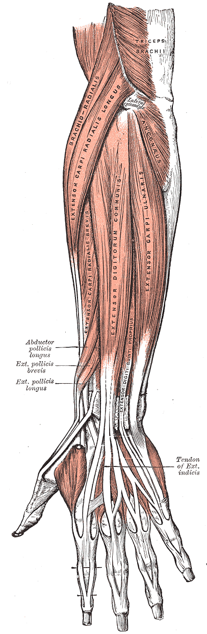 superficial muscles of back of forearm